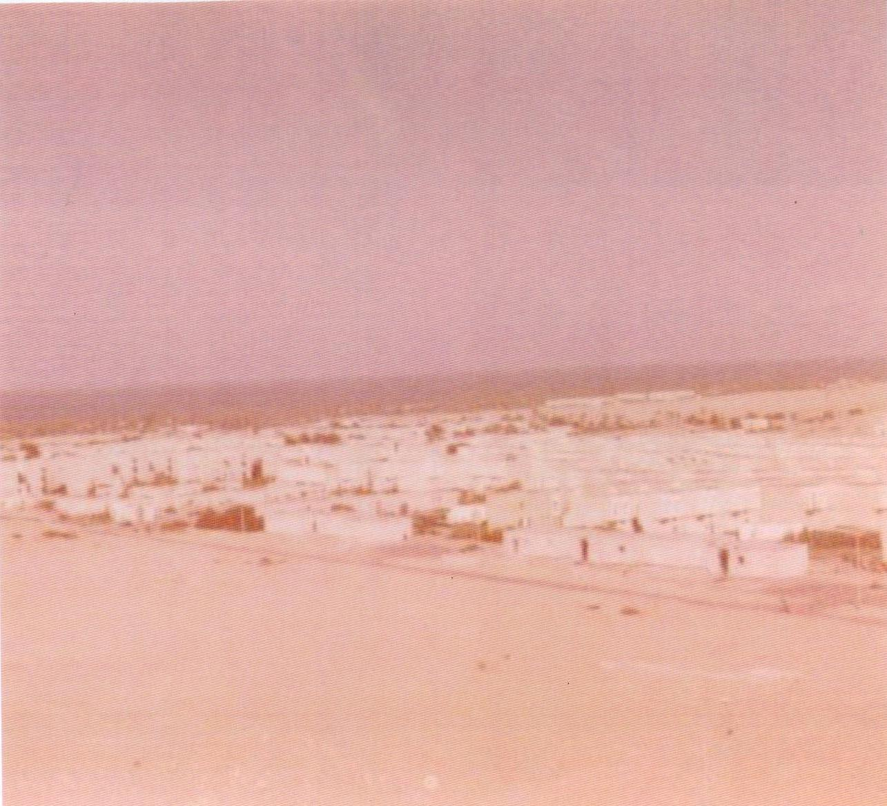 Israeli settlement in Sinai